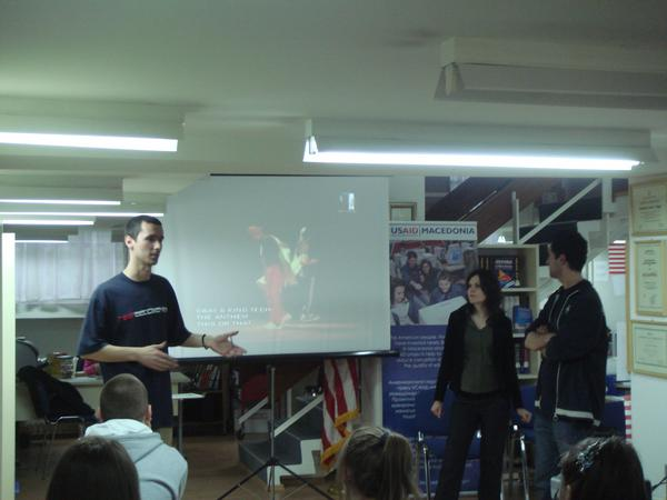 Hip Hop Discussions, Skopje, 2008